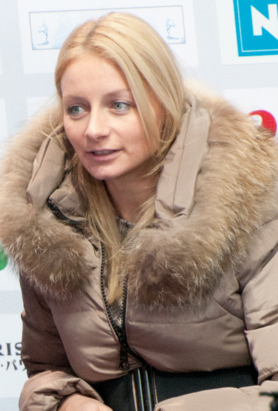 2011 Cup of Russia, free skating.